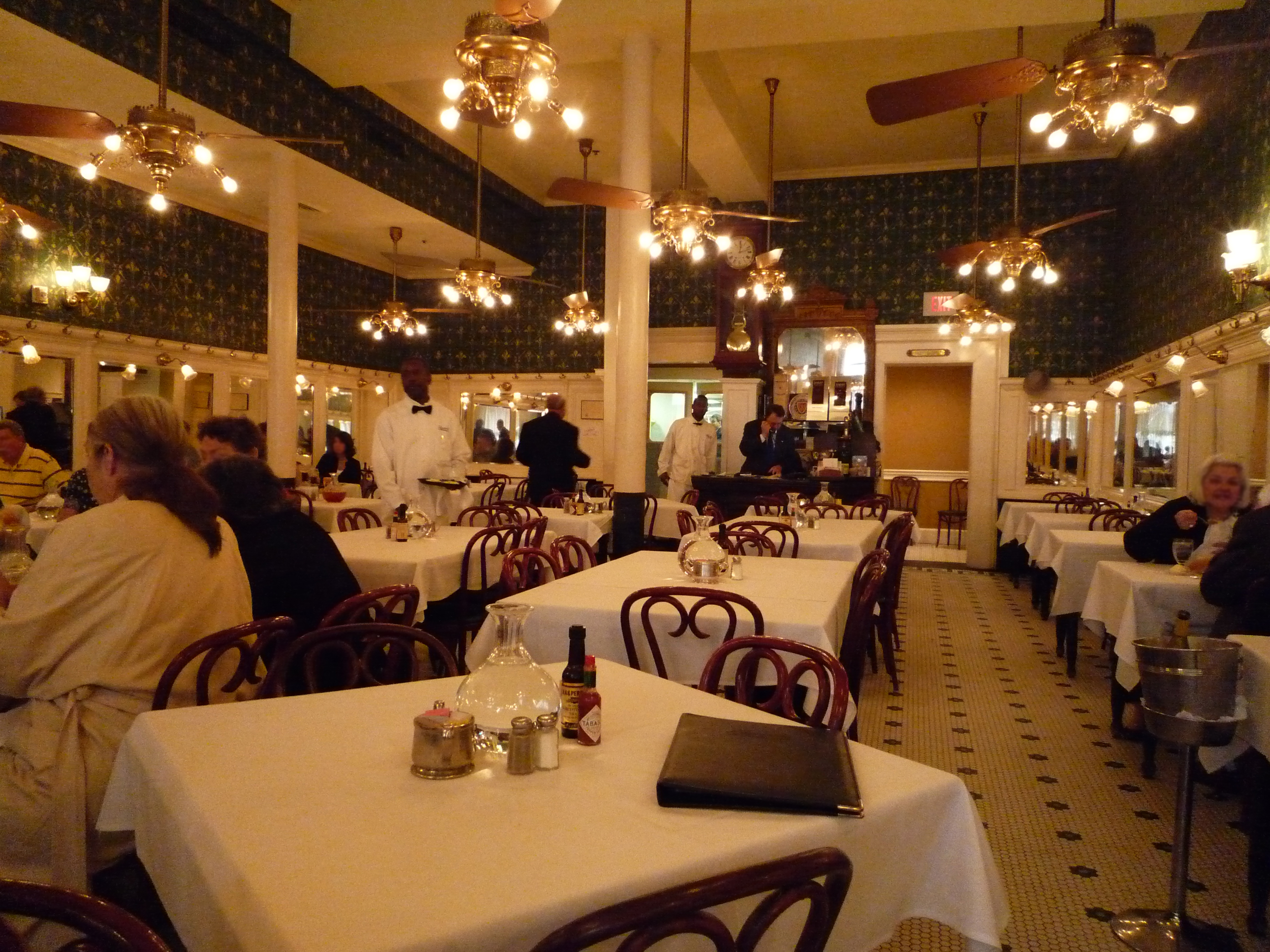 The main dining room of Galatoire's, a noted restaurant in New Orleans, Louisiana.